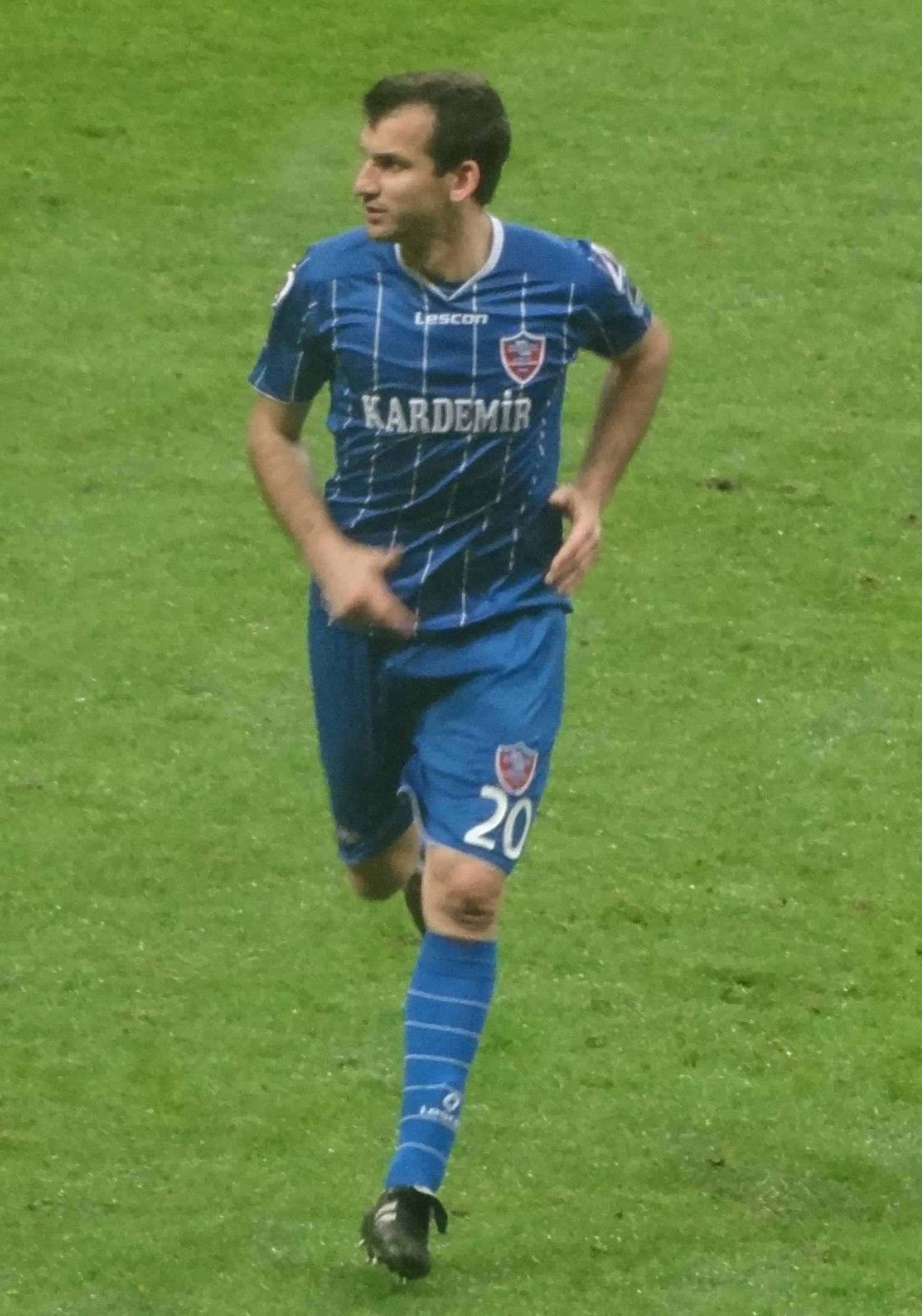 Anthony Šerić playing against GS